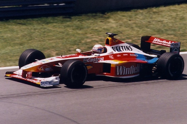 Alessandro Zanardi driving for WilliamsF1 at the 1999 Canadian Grand Prix.